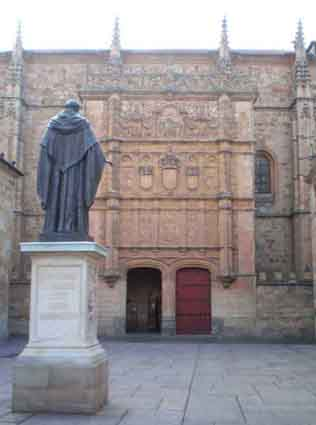 Salamanca university